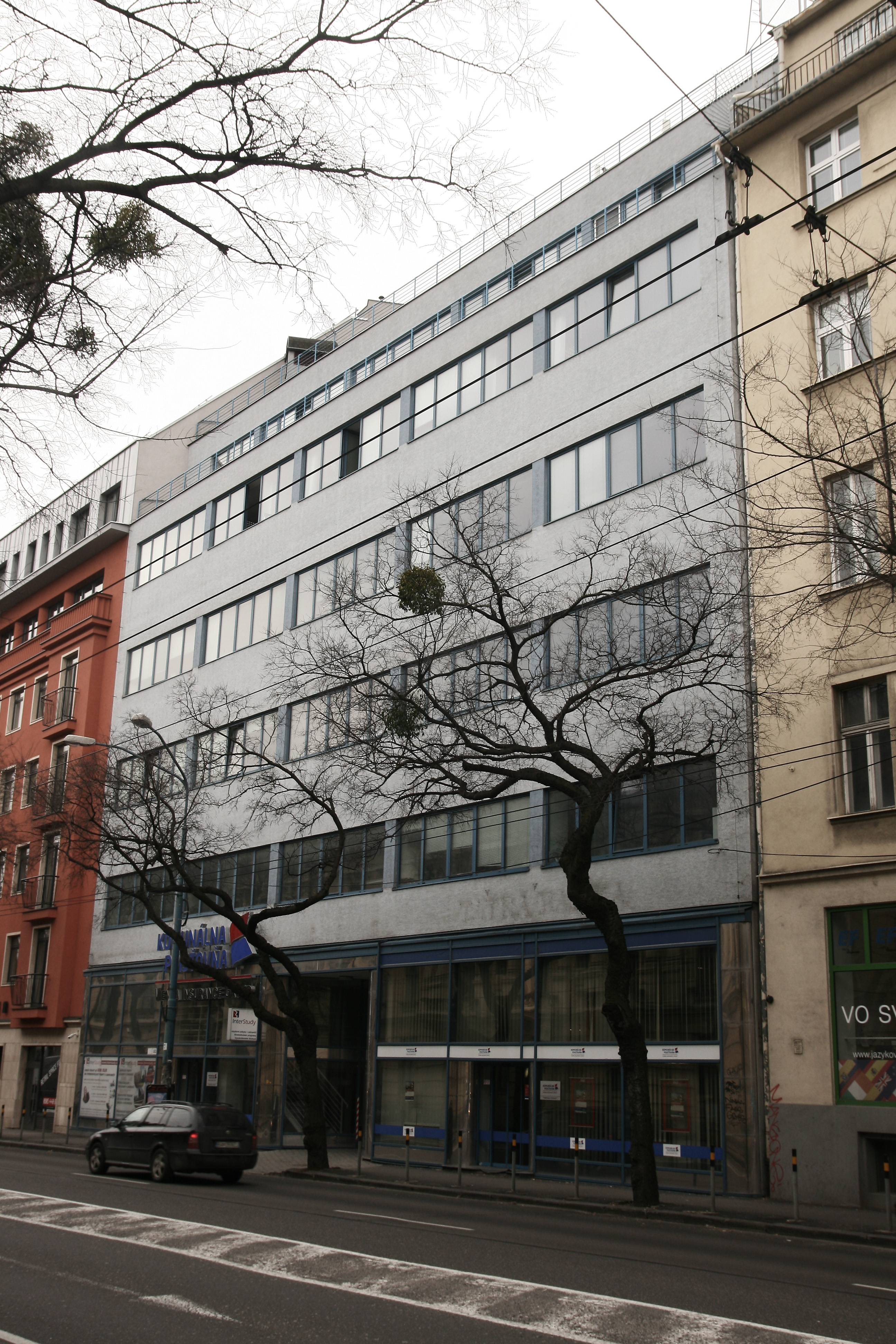 Branch of United UP plants building, Bratislava, Slovakia. Functionalist building from 1929 by architect Jan Víšek.